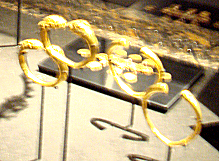 Scythian bracelets. Tillia Tepe. Musee Guimet.